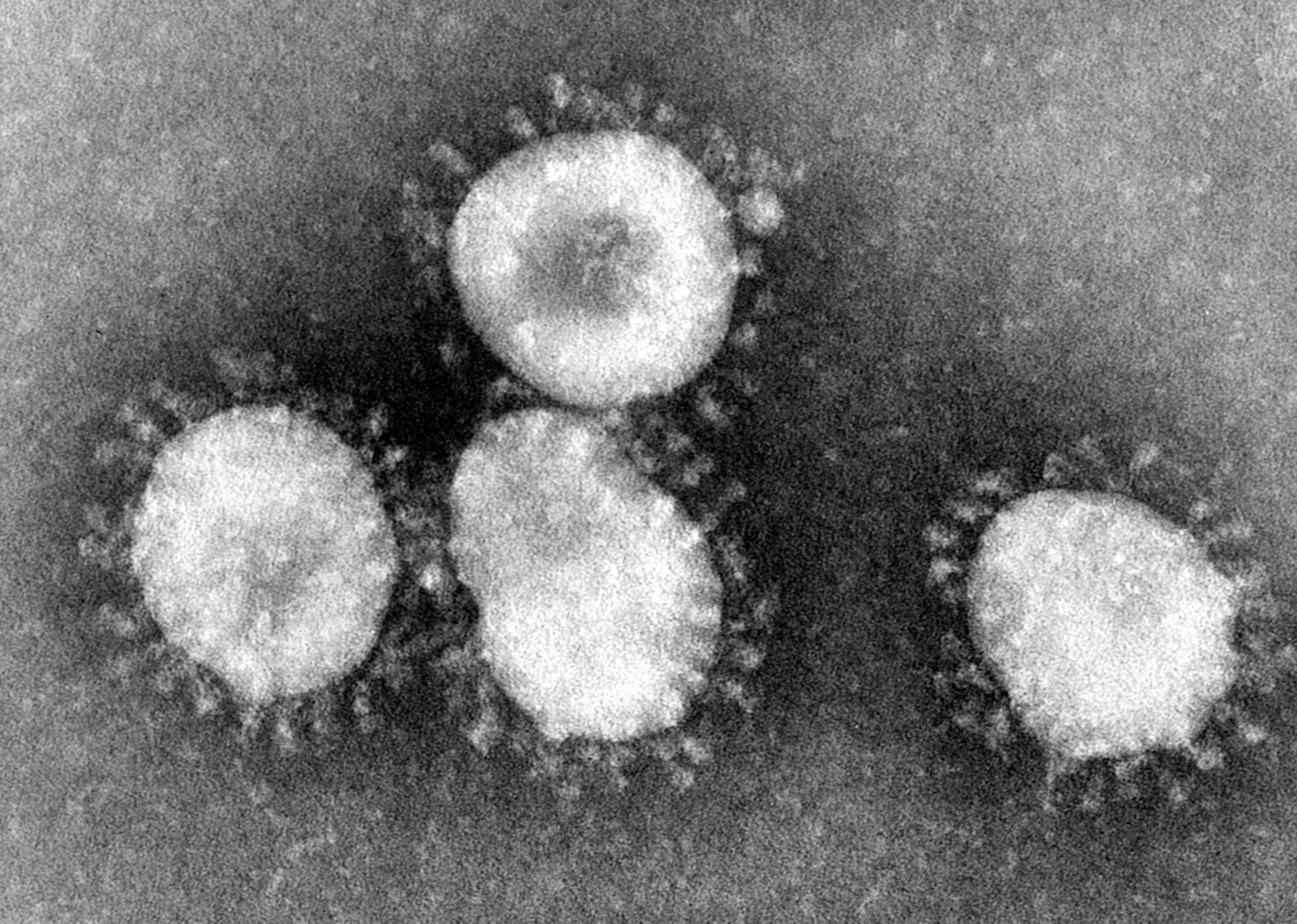 Coronaviruses are a group of viruses that have a halo, or crown-like (corona) appearance when viewed under an electron microscope. The coronavirus is now recognized as the etiologic agent of the 2003 SARS outbreak. Additional specimens are being tested to learn more about this coronavirus, and its etiologic link with Severe Acute Respiratory Syndrome. It is stated on the CDC website for a coloured version of the image that this depicts the (Avian) Infectious bronchitis virus